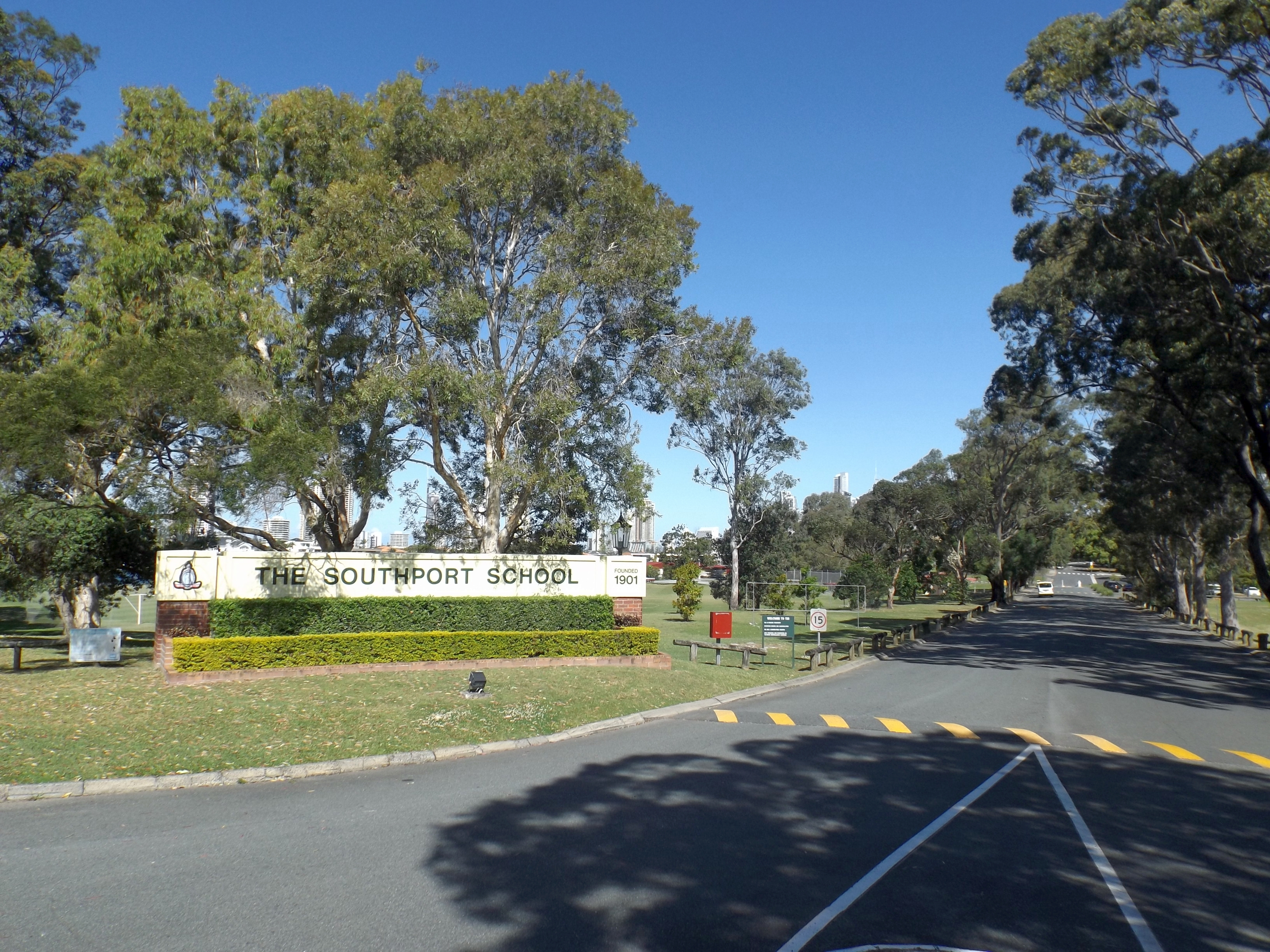 Photo of the entrance to The Southport School at Southport, Gold Coast City, Queensland, Australia.